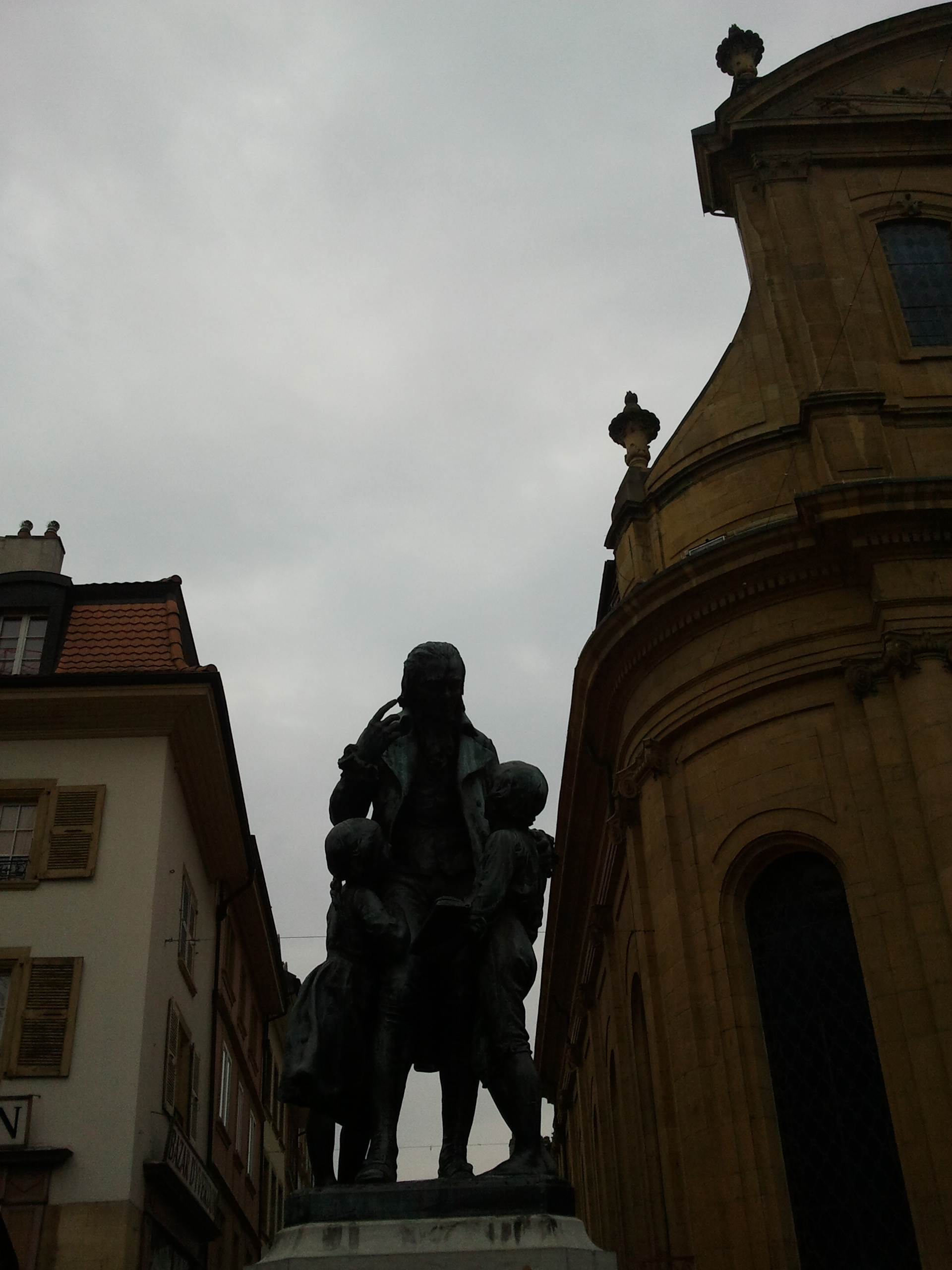 Bronze statue of Pestalozzi, Pestalozzi place, downtown Yverdon-les-Bains